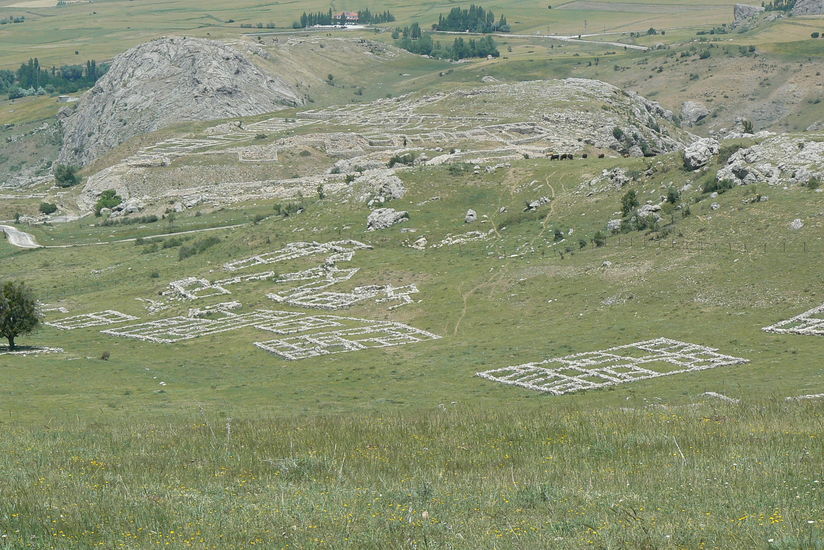 The Upper city, the Temple district, Hattusa, Turkey